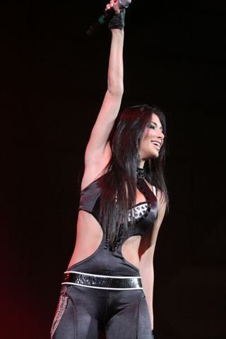 Nicole Scherzinger at the Tacoma Dome in Washington.